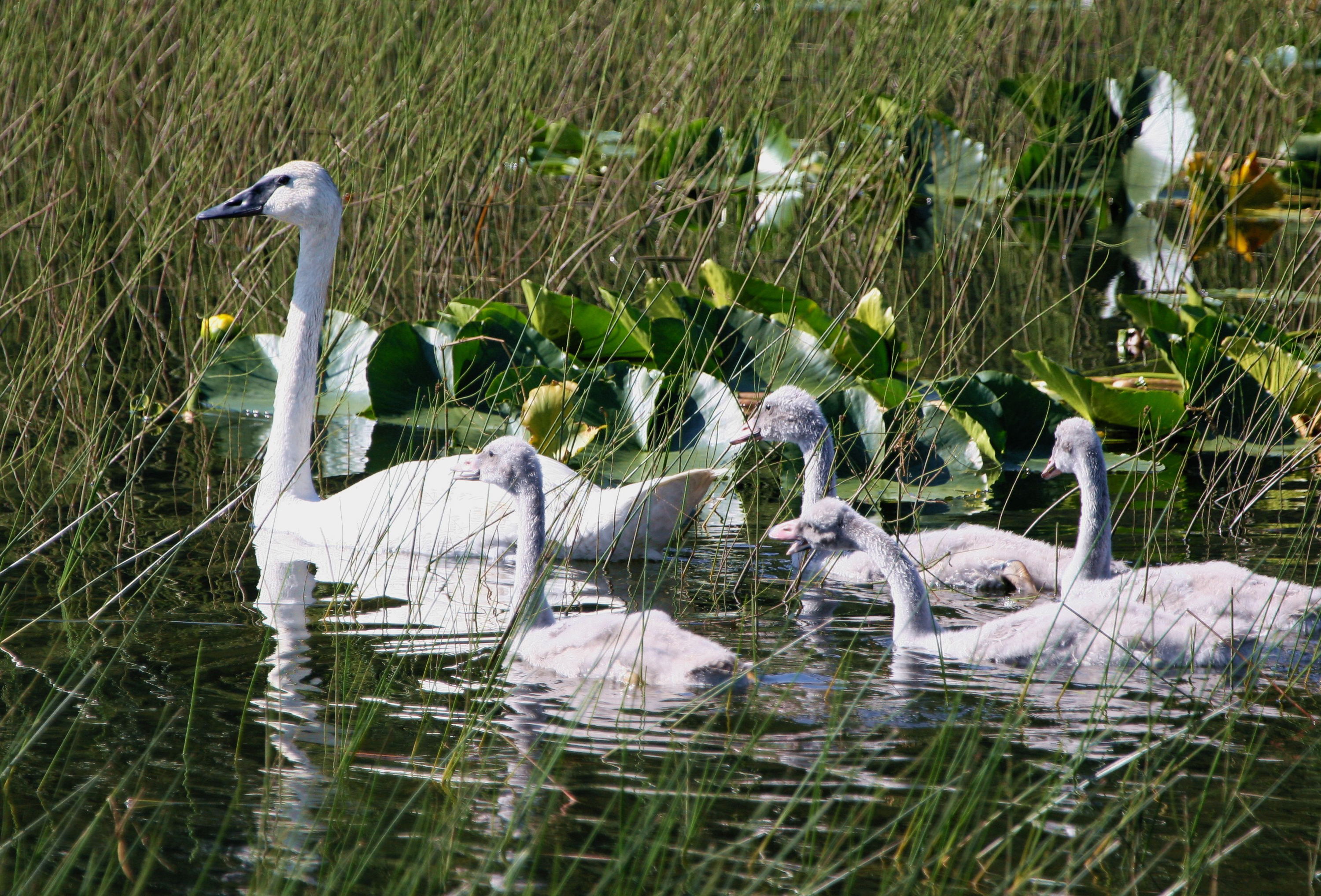 Tumpeter Swan (Cygnus buccinator) brood